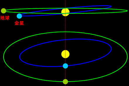 Diagram showing how transits of Venus occur and why they don't occur frequently. Drawn by User:Theresa Knott.